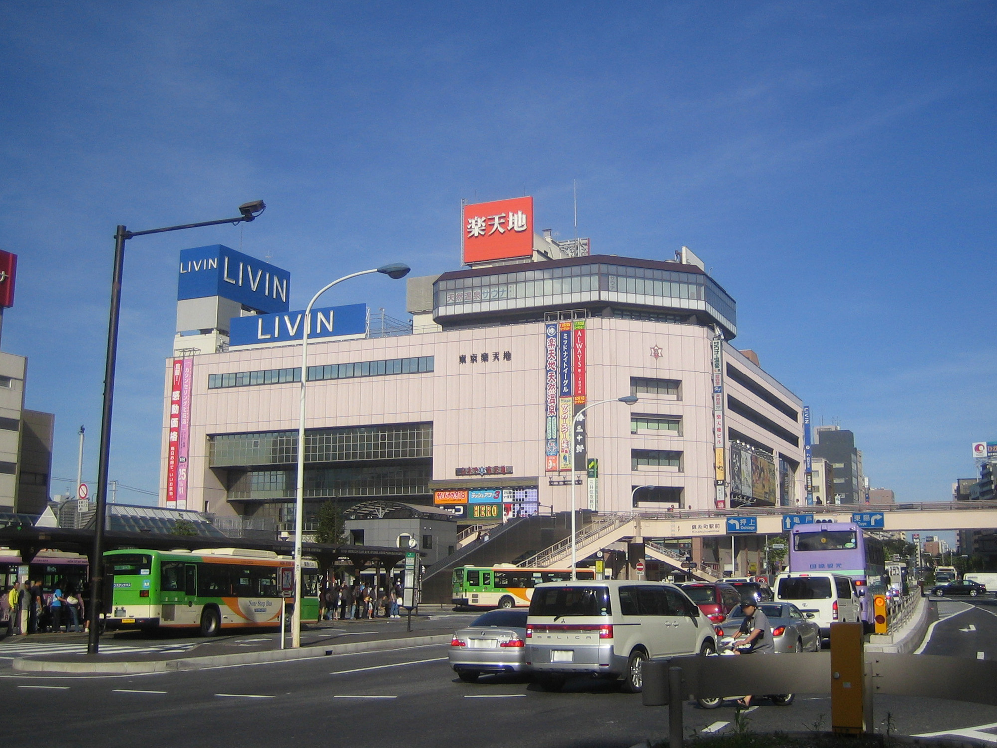 Rakutenchi Building (楽天地ビル), at Kotobashi, Sumida, Tokyo, Japan